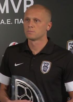 Zvonimir Vukić receiving an award in November 2013